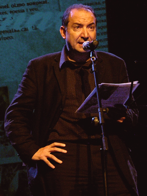 Valencian journalist & writer Vicent Sanchis reading on band VerdCel in Alcoi